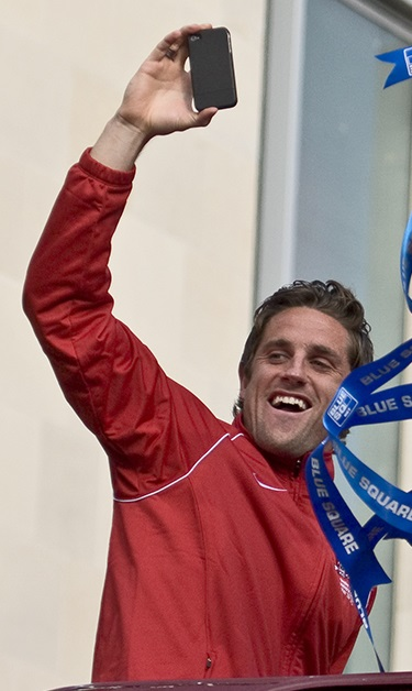 Chris Doig. Image cropped from original at flickr.